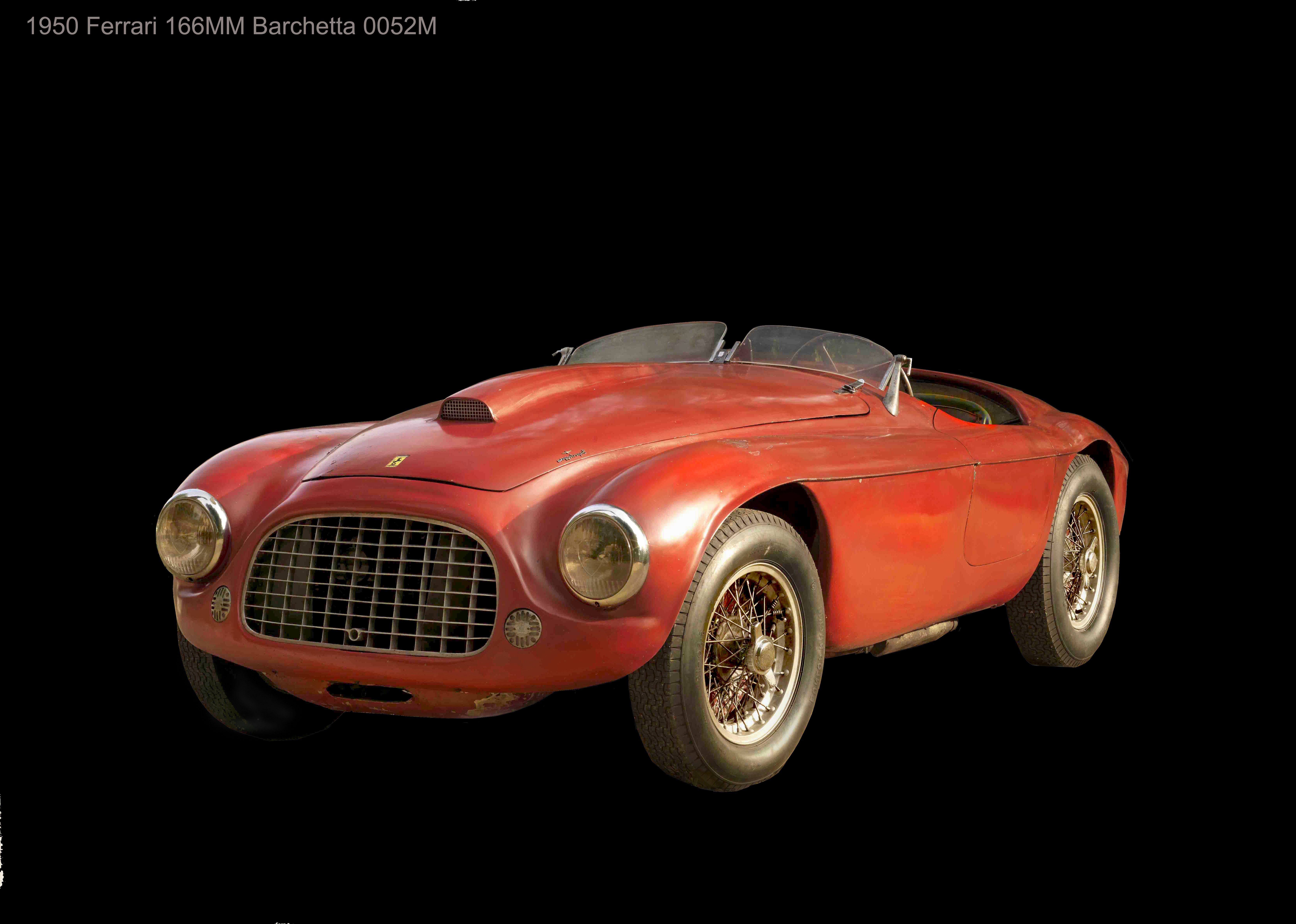 This particular 166 MM Barchetta Serial number 0052M is the earliest known sports racing Ferrari that is in original condition as found 2006 in Arizona. The car was purchased by an America from Switzerland in 1958 and shipped to Arizona after an one of the most extensive racing carriers in Europe. The car raced at 1950 Le mans - Lord Selsdon, Lucas, 1950 Silverstone Serafini 2nd OA, 1950 12 Hrs Paris Montlhery - Chinetti 1st OA, 1950 Montlhery Speed record attempts - Chinetti achieved record speeds but a tire blew out without an accident, 1952 Targa Florio - T.A.S.O. Mathieson 6th OA 1st is class, 1953 Monza, 1955 Mille Miglia, 1955 Agadir, 1955 Hyeres and more races to be discovered!